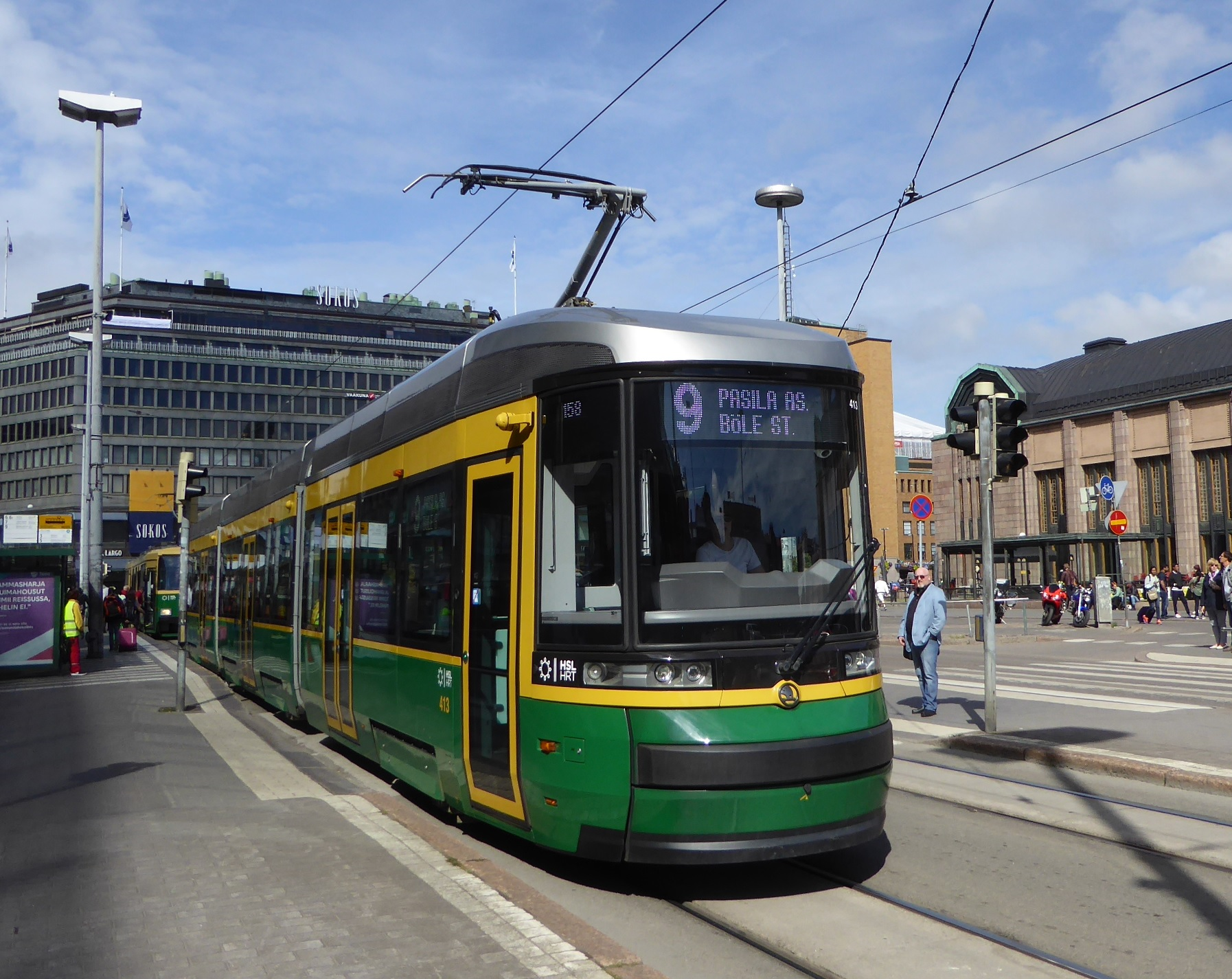 HKL tram line 9 on Rautatientori at Helsingin päärautatieasema (Helsinki Central railway station).